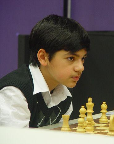 Anish Giri (born June 28, 1994). Photo by Rene Othlof